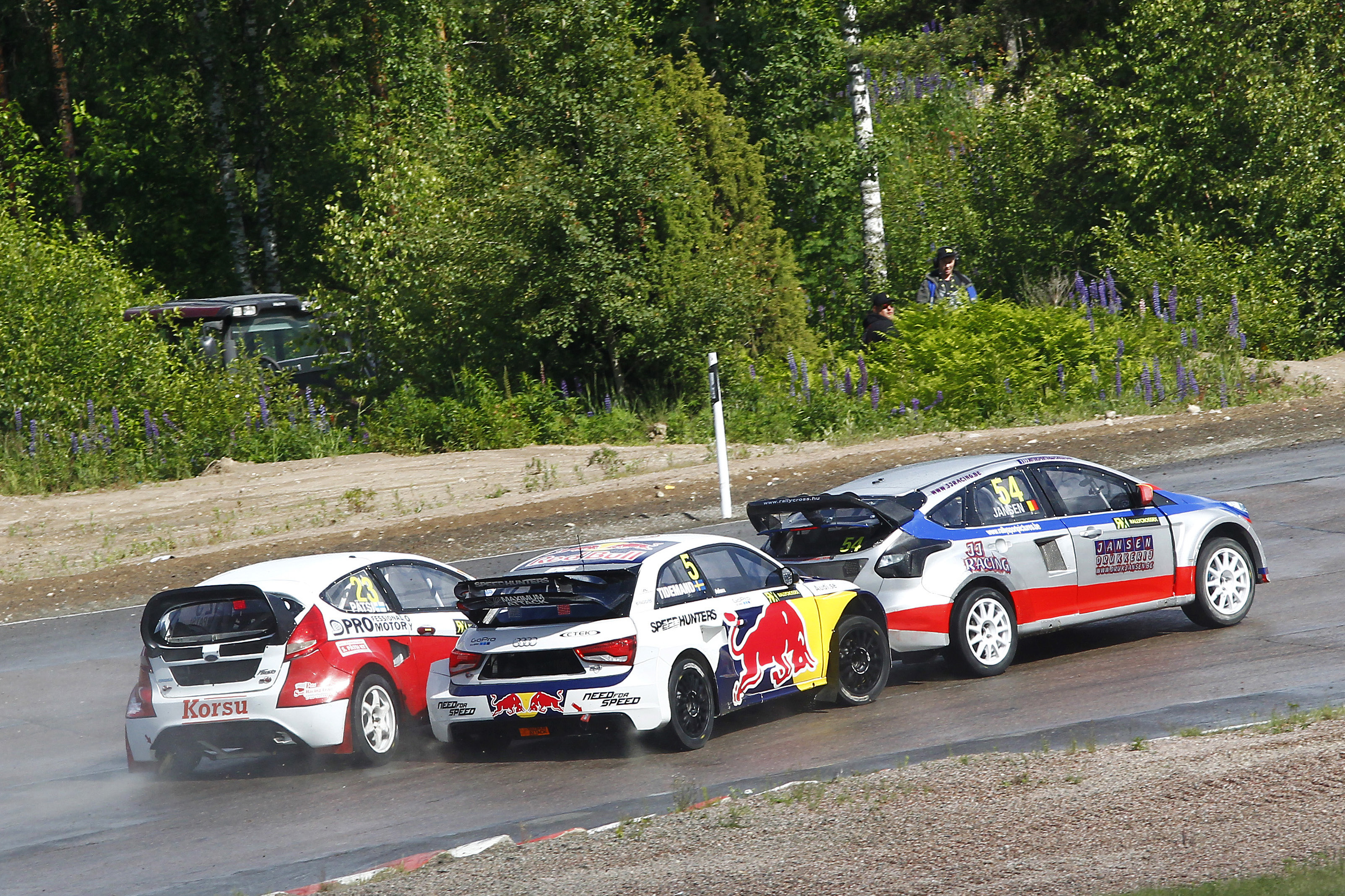 2014 FIA World Rallycross Championship Round 04 Kouvola, Finland 28th & 29th June 2014 Worldwide Copyright: McKlein